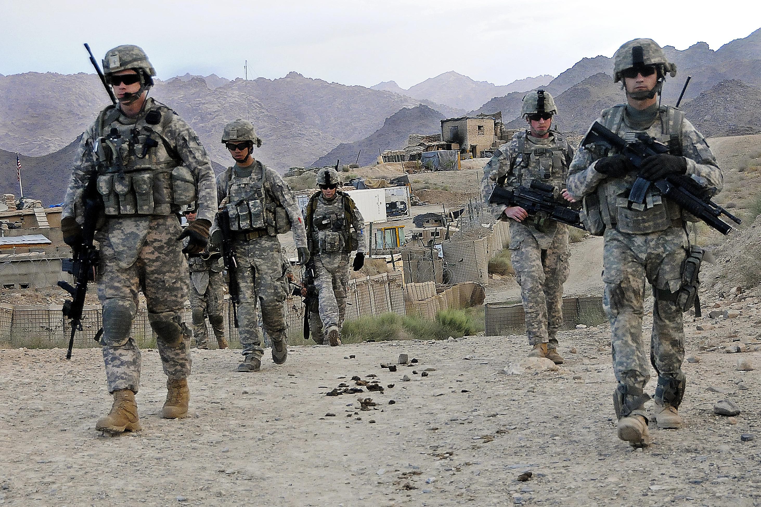 U.S. Soldiers depart Forward Operating Base Baylough, Afghanistan, June 16, 2010, to conduct a patrol. The Soldiers are from 1st Platoon, Delta Company, 1st Battalion, 4th Infantry Regiment. (DoD photo by Staff Sgt. William Tremblay, U.S. Army/Released)